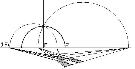 construction de la représentation perspective d'un carrelage